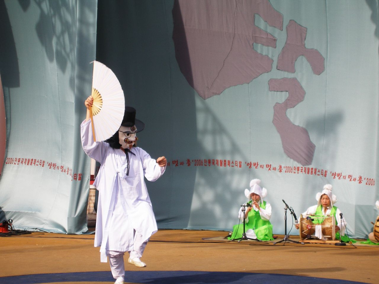 Eunyul talchum, a Korean mask dance originated in Eunyul, Hwanghae Province, now North Korea